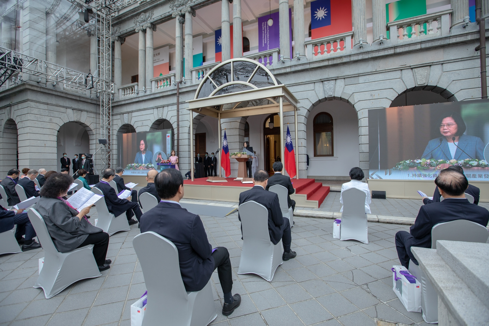 Official Photo by Wang Yu Ching / Office of the President